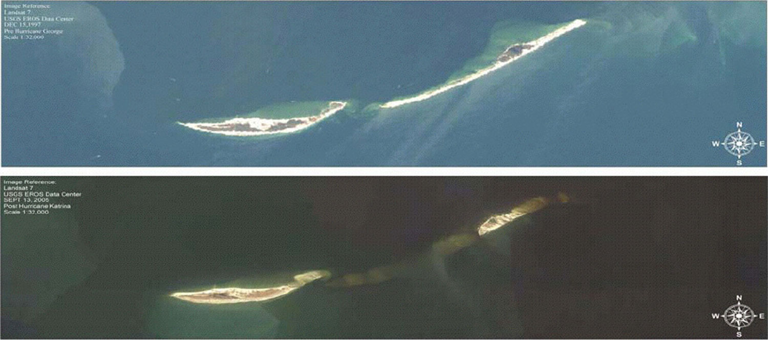 Image showing Ship Island in the United States Gulf Coast before Hurricane Katrina and after Hurricane Katrina